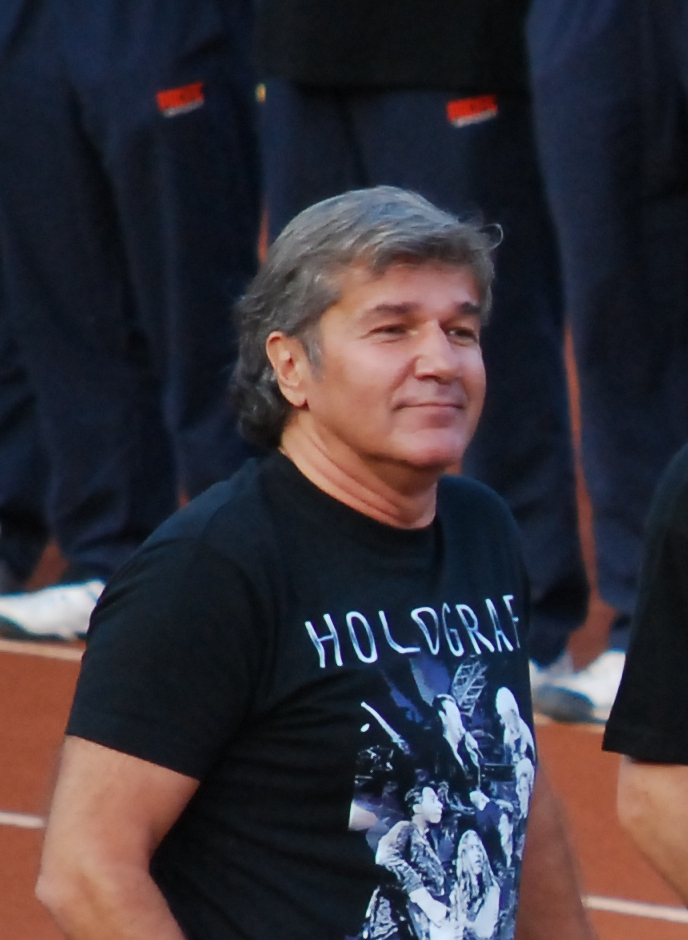 Romanian rock singer Dan Bittman at tennis player Andrei Pavel's retirement match.